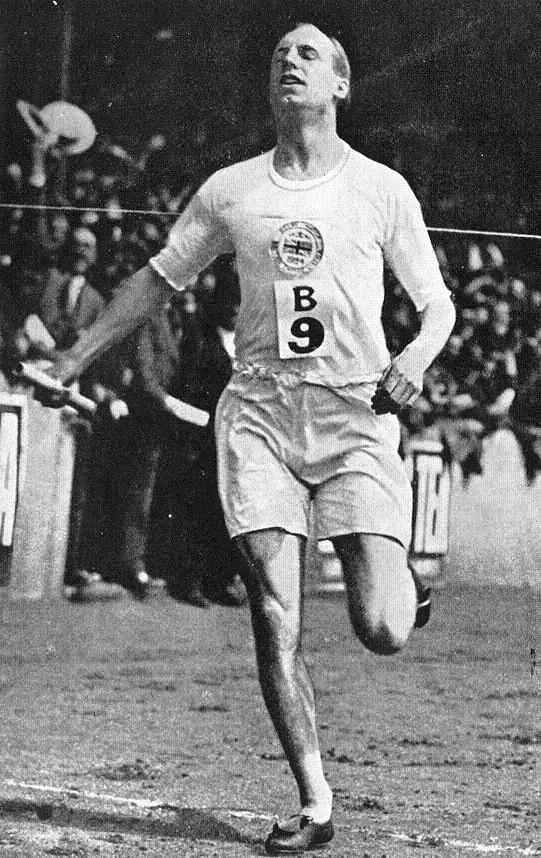 Eric Liddell at the British Empire versus United States of America (Relays) meet held at Stamford Bridge, London on Sat 19 July 1924